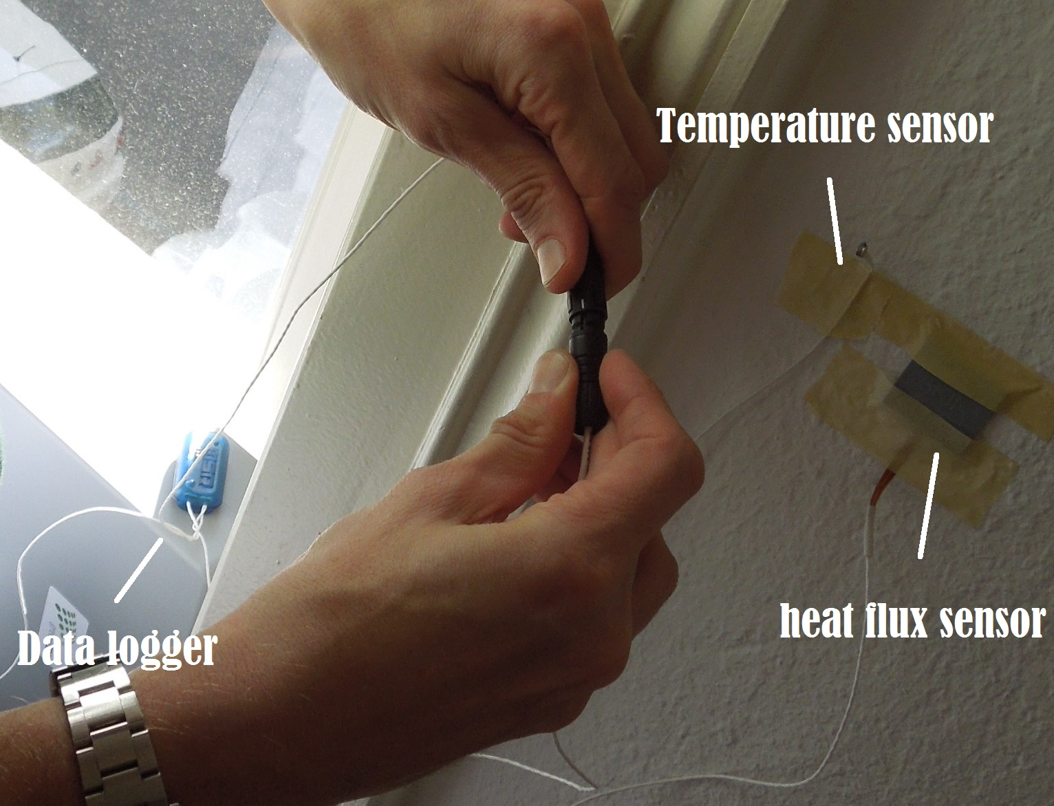 GreenTEG U-Value Kit: Measurement set up